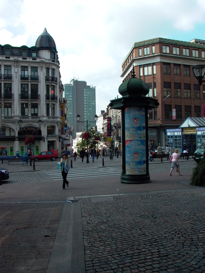 View of the Mountain street. (Rue de la Montagne).